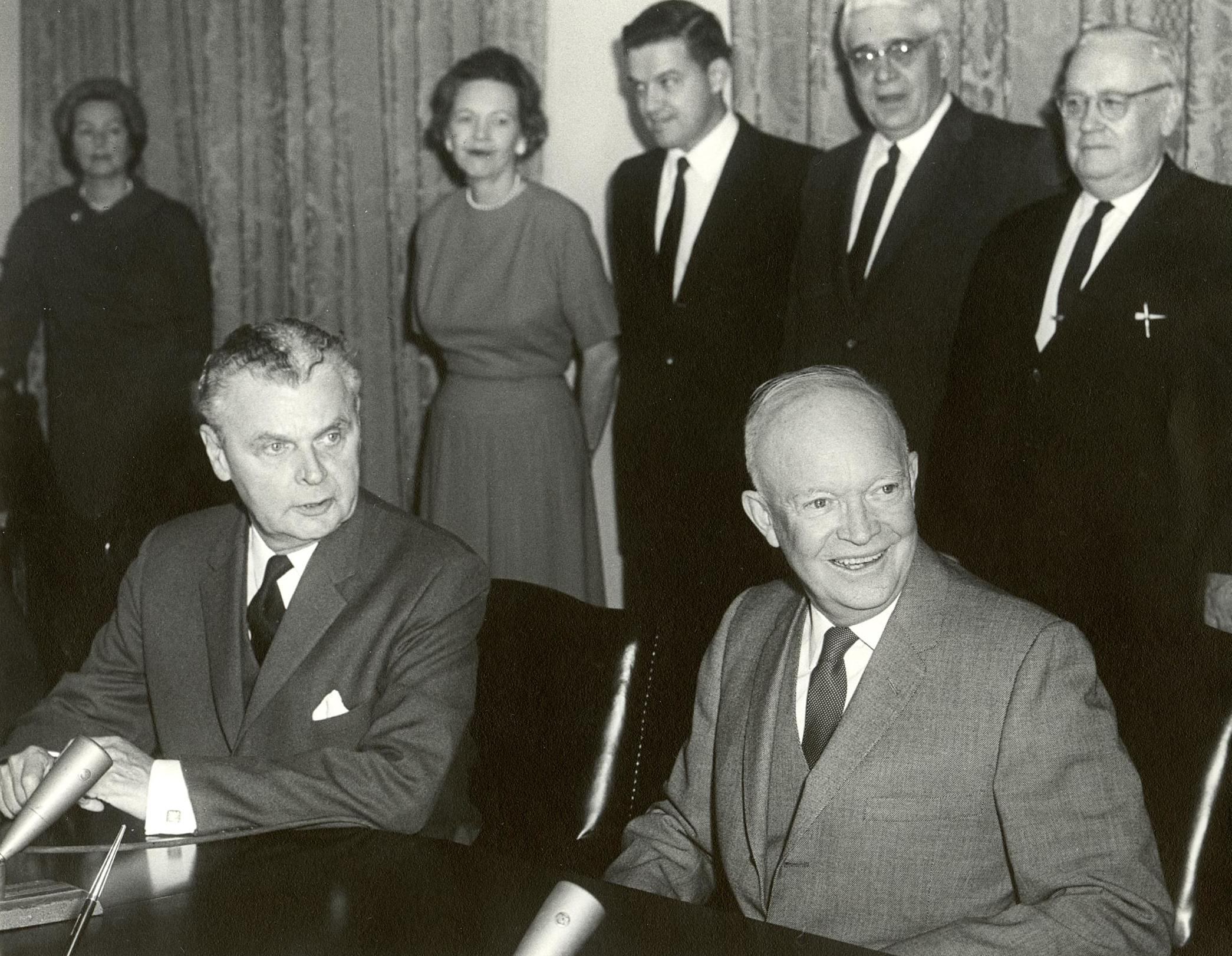 John Diefenbaker and Dwight Eisenhower at the signing of the Columbia River Treaty, January 1961